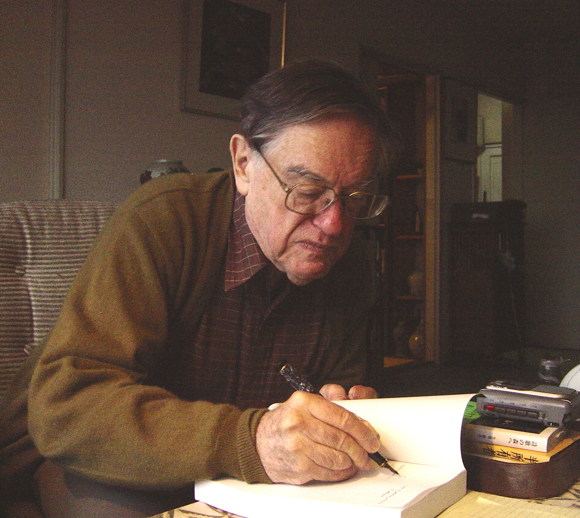 Japanologist Donald Keene at his Tokyo home in October 2002, while signing a copy of his Emperor Meiji's biography and being interviewed for Letras Libres.